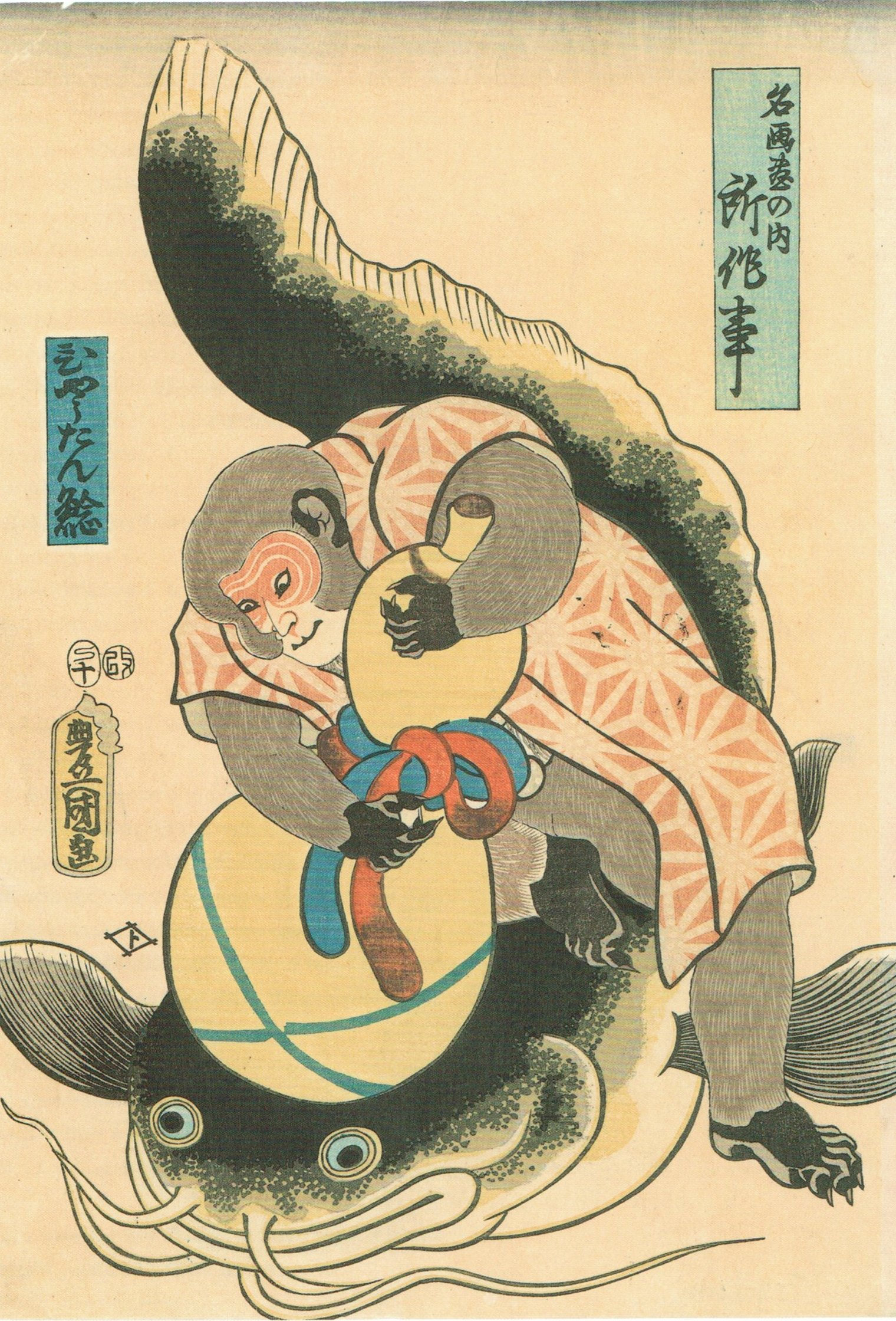 Namazu-e - Kashima controls Namazu with his sword. Title: Catching a Catfish with a Gourd (Hyotan namazu). Series: "Dances based on Famous Paintings" (Meiga zukushi no uchi Shosagoto). Woodblock print. Amherst colleges collection